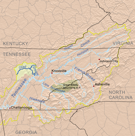 Map of the Emory and Obedrivers watershed.